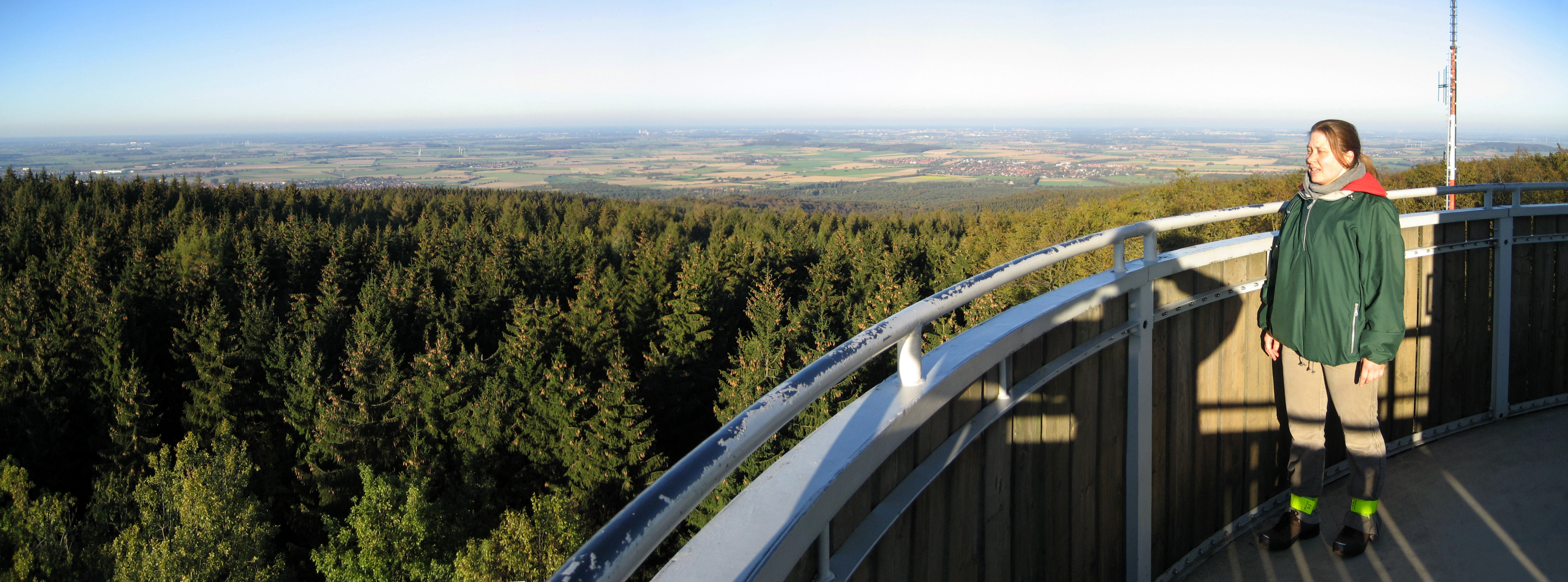 observation deck of tower "Annaturm"